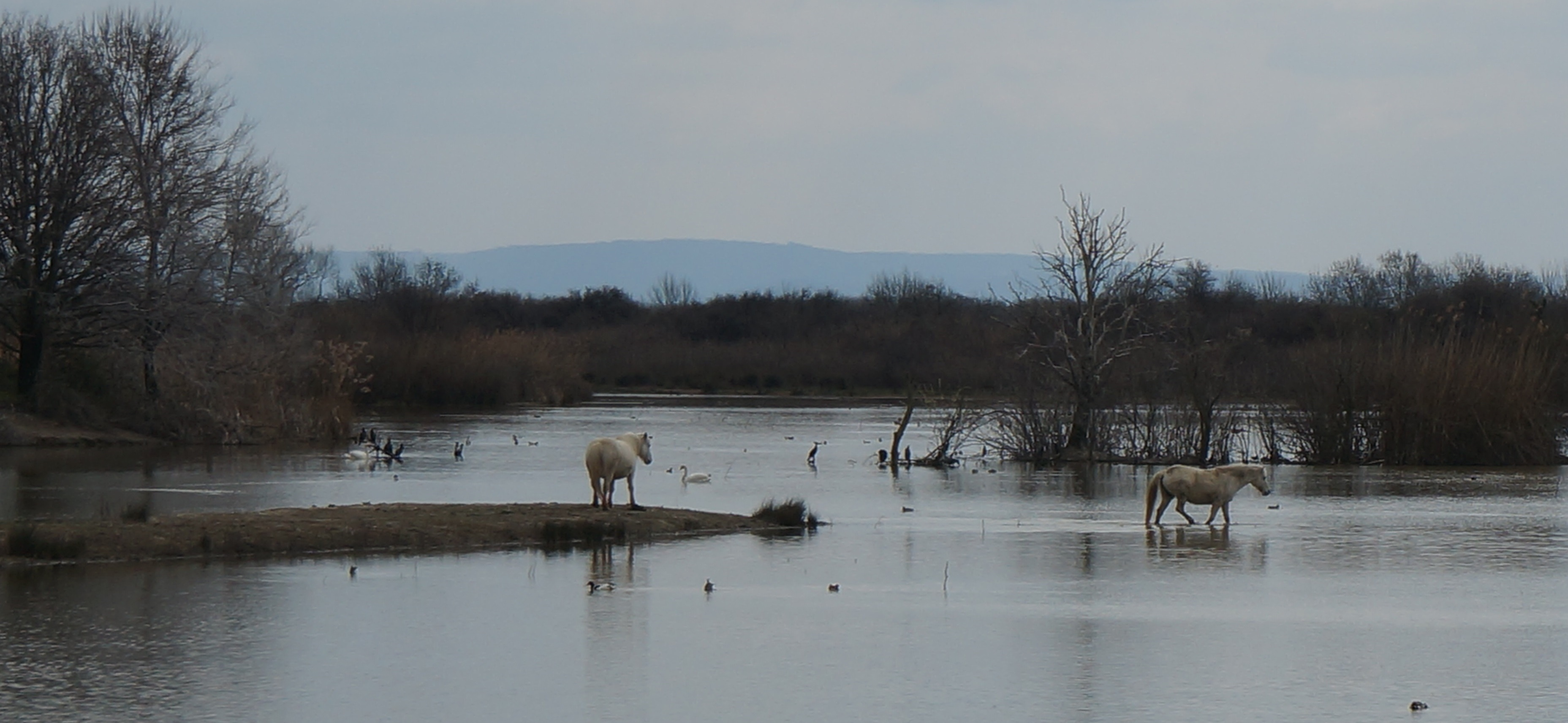 Nature Reserve Isonzo river Mouth, Italy, EU